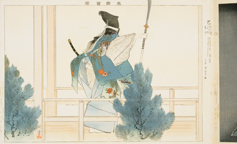 Tomoe, Noh